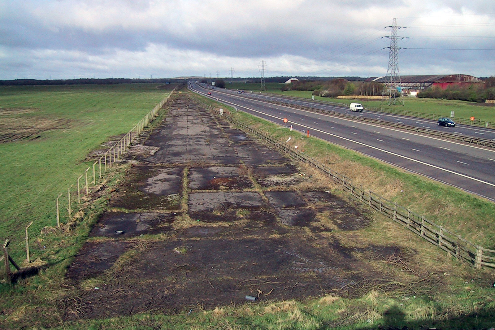 View westbound at the site of M62 J8, showing the last remaining part of the Burtonwood main runway before construction of the junction